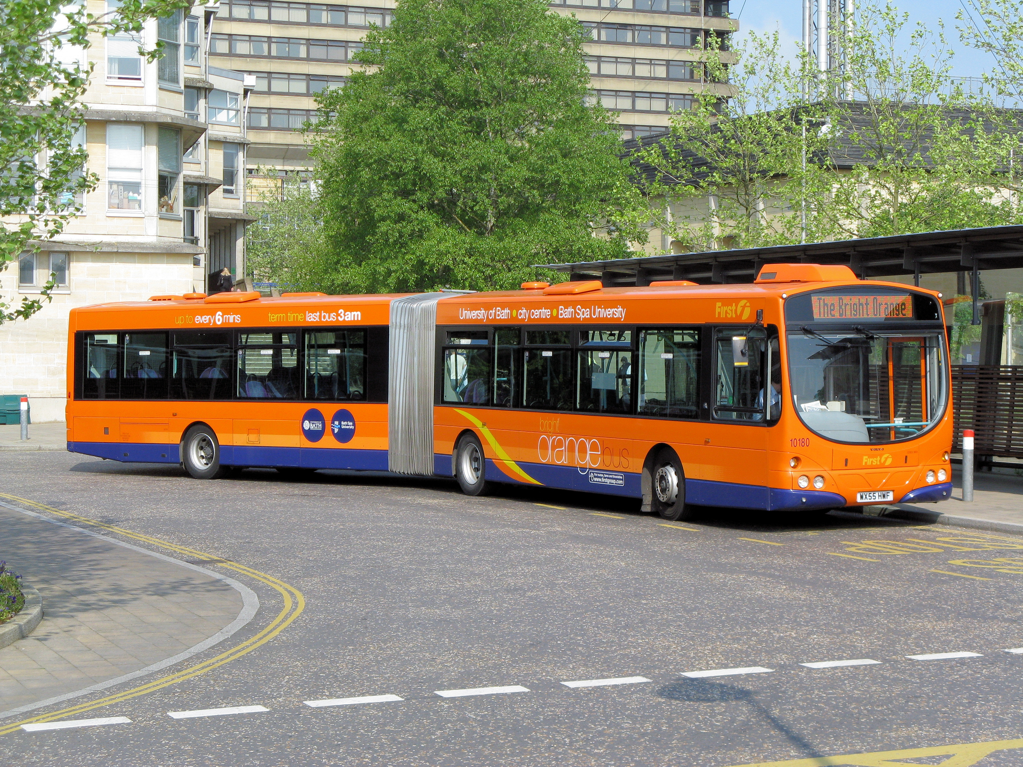 First Somerset and Avon bus 10180 (reg. WX55 HWF), a 2005 Volvo B7LA articulated bus with Wrightbus Eclipse Fusion bodywork, pictured at the University of Bath, England. Painted in a special livery and marketed as The Bright Orange, it takes students between the University, Bath Spa University and the city of Bath. The buildings of the main University site, at Claverton Down, are in the background.